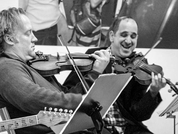 Christian Howes and Sam Bardfeld in Aarhus Denmark 2011 with Joel Harrison String Choir